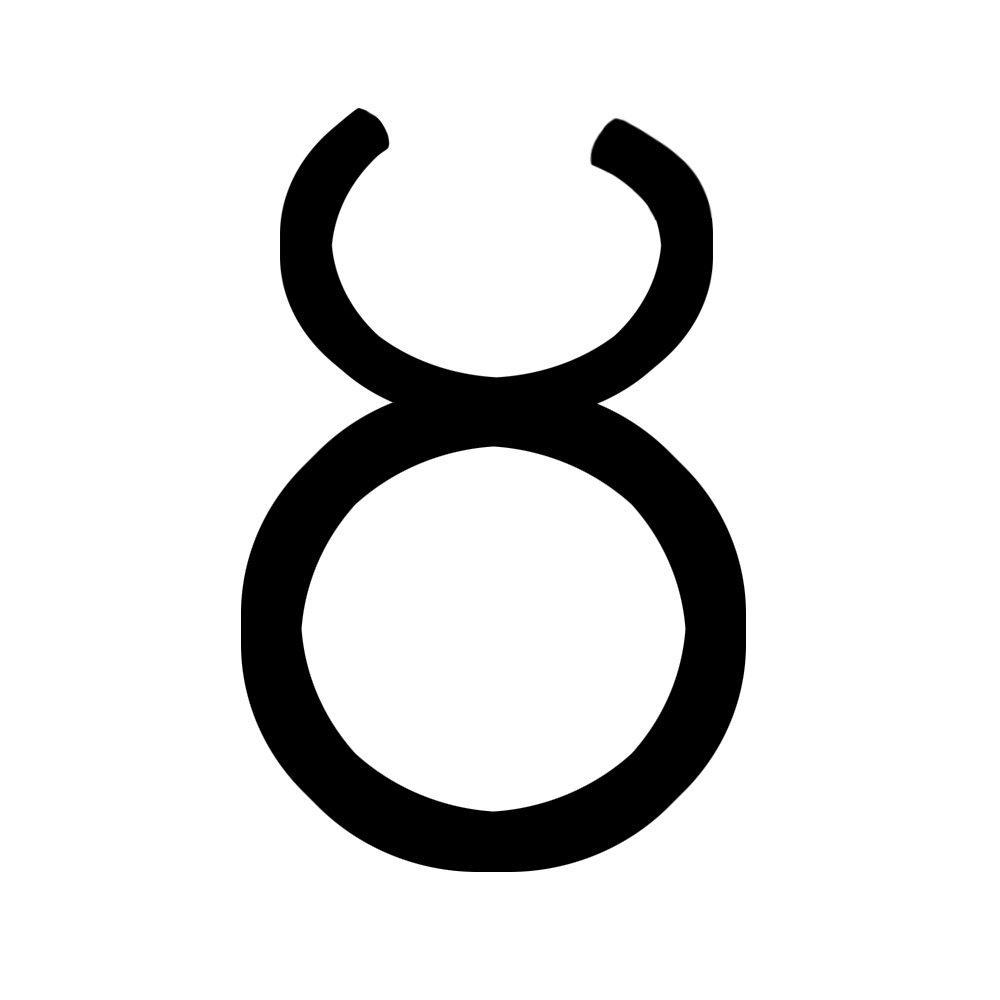 Alchemical symbol Torbern Bergman used for the element Bismuth in his 1775 Dissertation on Elective Affinities.